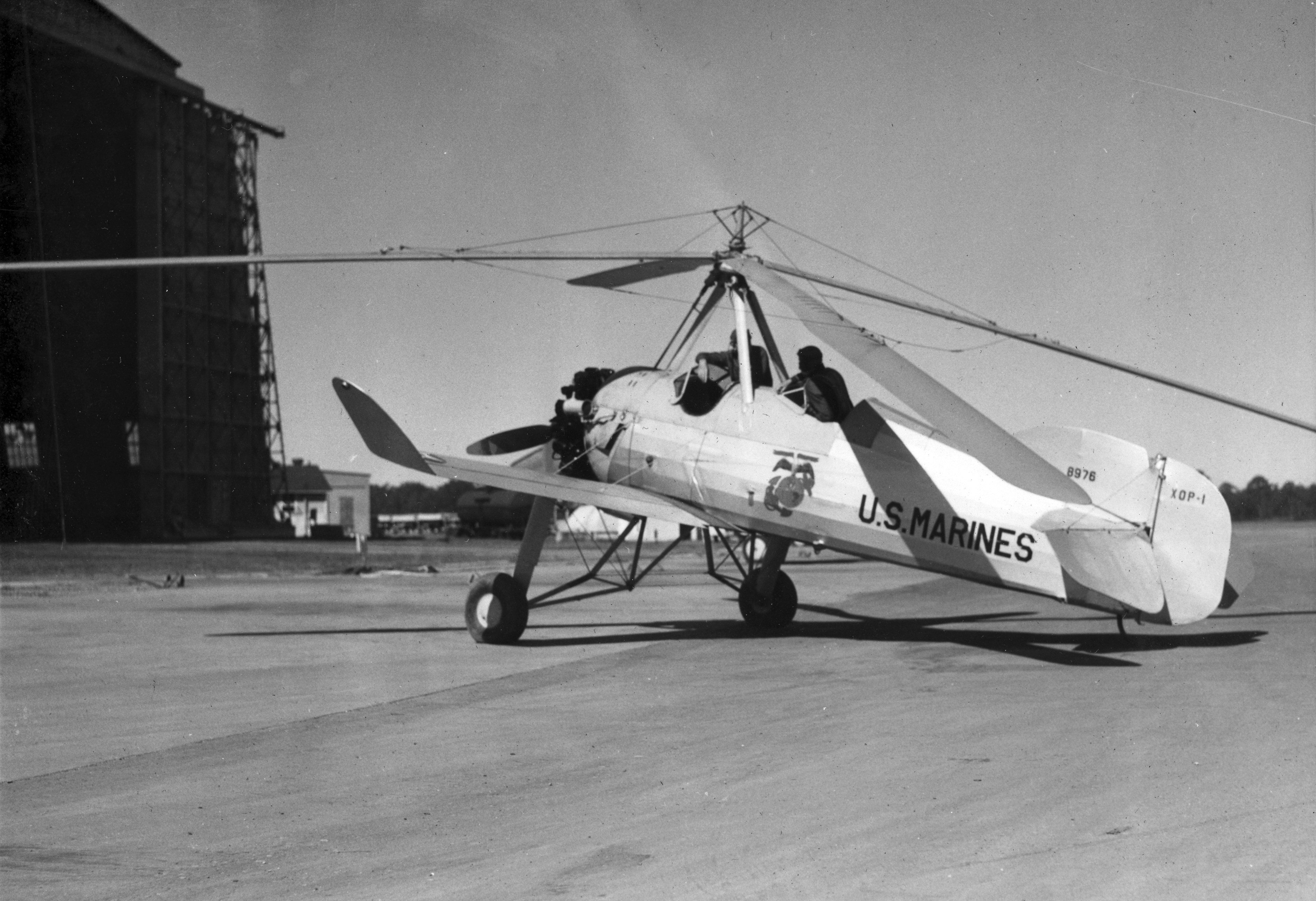 A U.S. Marine Corps Pitcairn XOP-1 autogyro (BuNo A8976), circa in 1932. One autogyro (of three built), assigned to Marine Utility Squadron Six (VJ-6M), was sent to Nicaragua in June 1932. The autogyro was tested through policing the rebel-infested mountains and jungles. While the aircraft performed well, its range and small payload significantly impaired it.